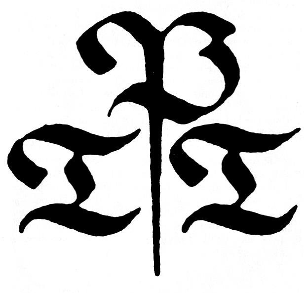 Logo of Pori Arts and Crafts Association